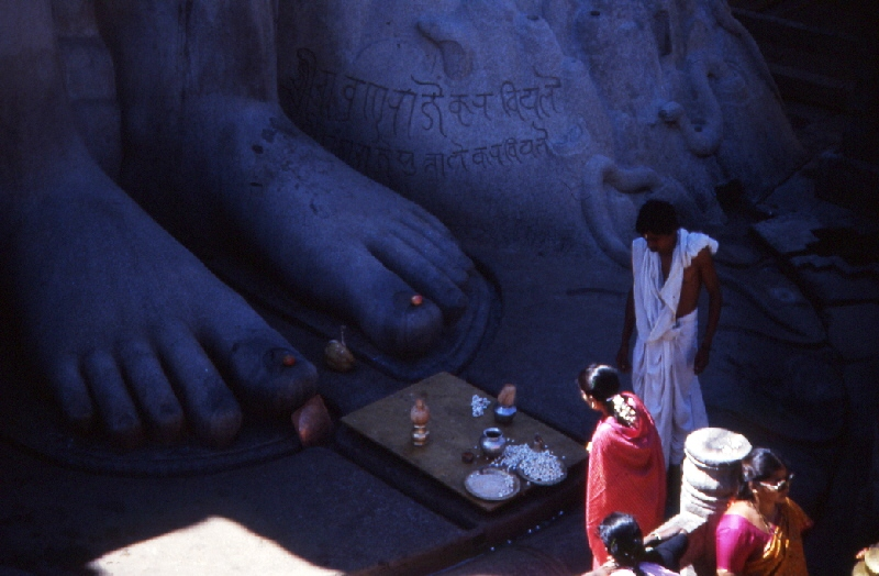 Gomateshwara, Shravanabelagola, Karnataka, India